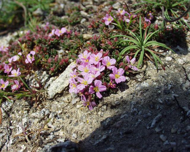 (en) Frankenia laevis , a photography originating of the internet site The accord of the autor, H. Brisse, is here. (fr) Frankenia laevis , une photographie issue du site internet L'accord de l'auteur, H. Brisse, se situe ici.